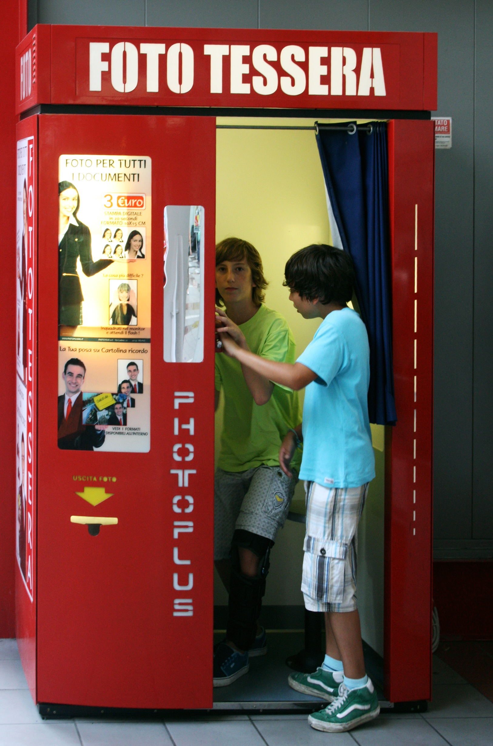 Photo booth in Genoa.